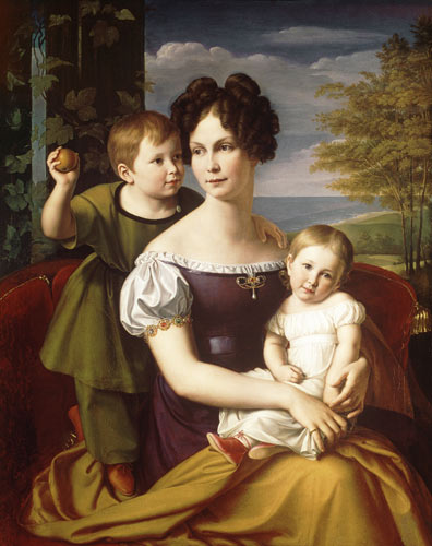 Grand Duchess Alexandrine of Mecklenburg (1803–1892), née princess of Prussia with her children.